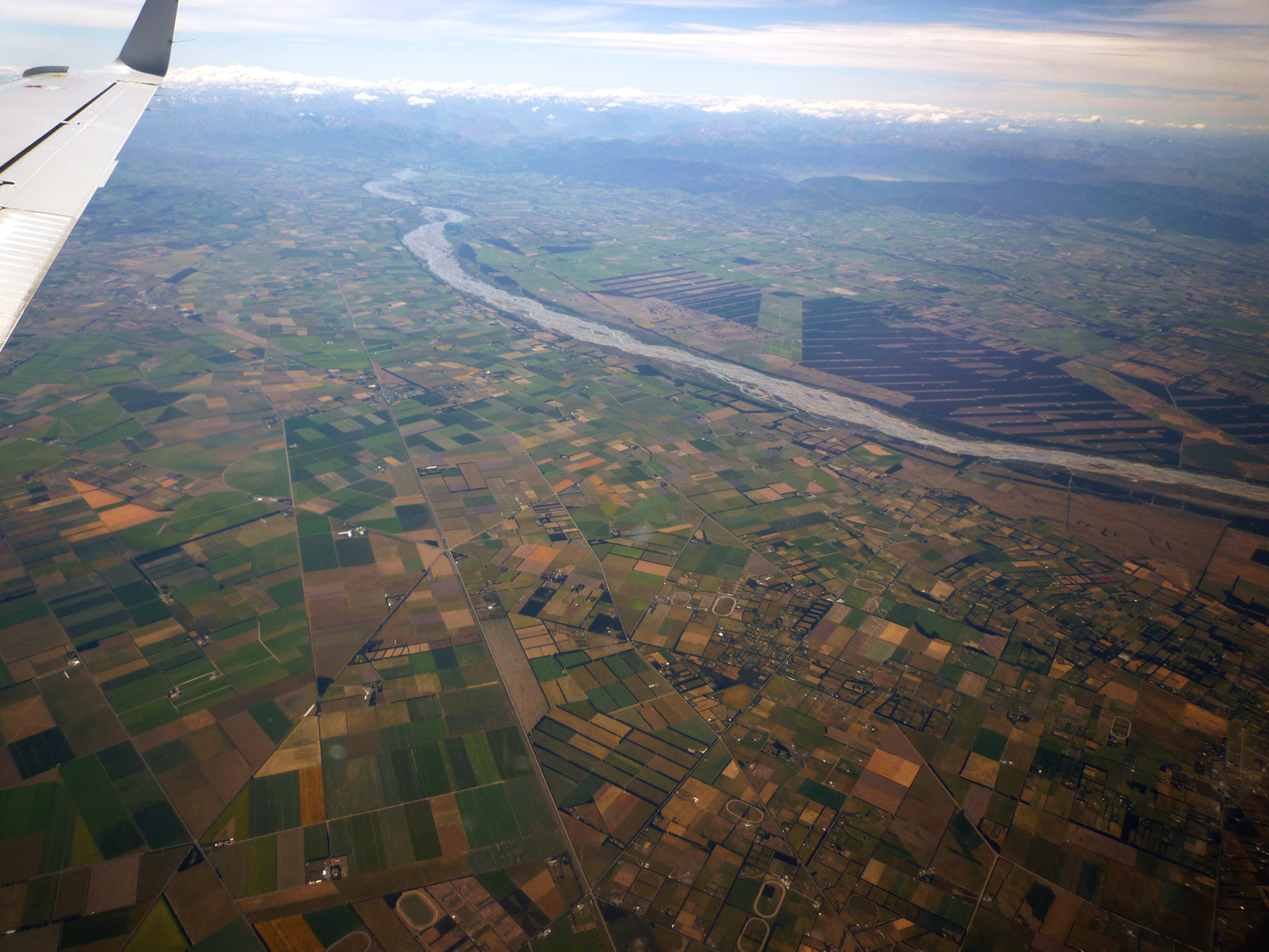 Aerial view of the northern Cantebury Plains, South Island, New Zealand. The river is the Ashley River or Rakahuri.